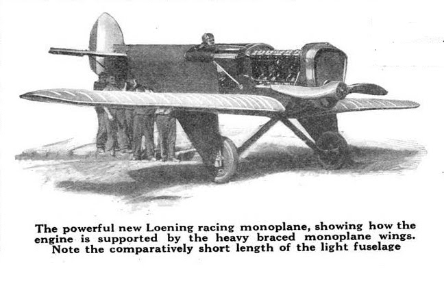 Racing monoplane designed by Grover Loening